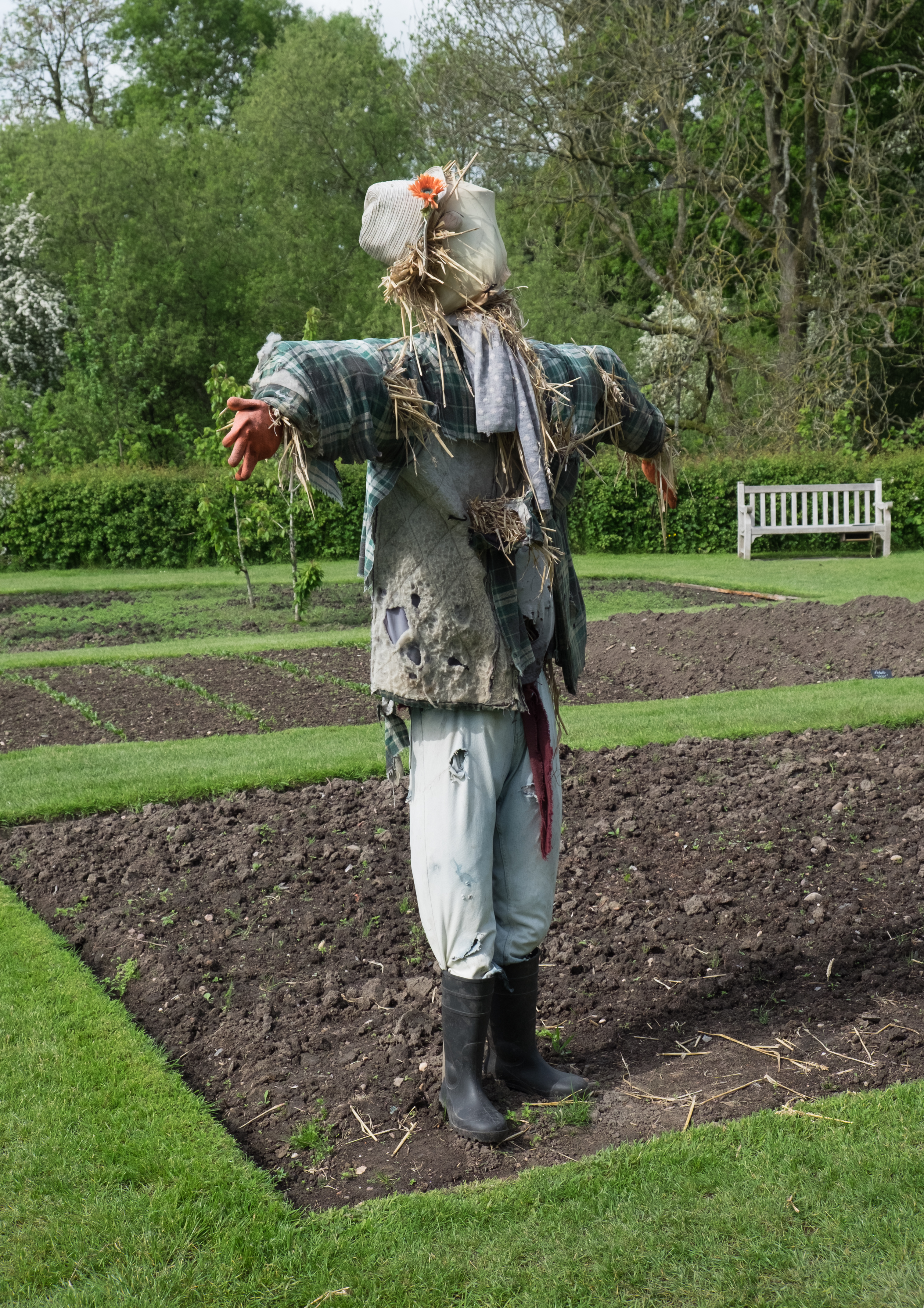 A scarecrow at Baddesley Clinton, Warwickshire